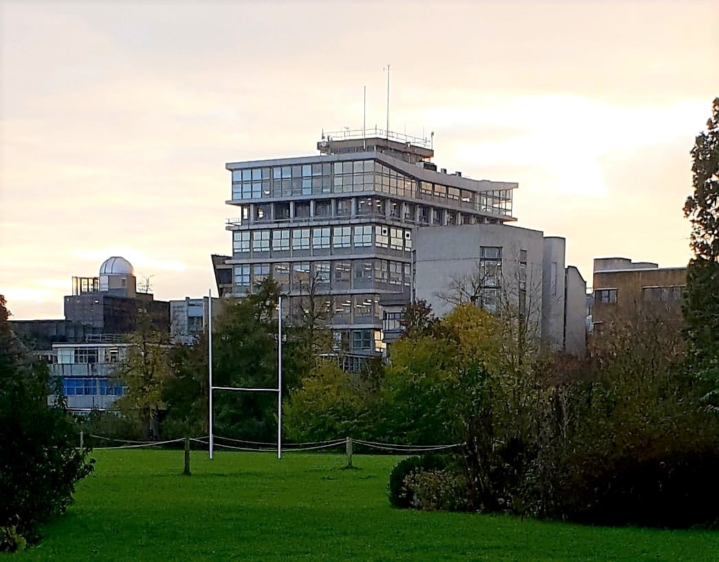 The buildings of the Department of Engineering Science at the University of Oxford. In the background on the left, the Philip Wetton telescope can be seen.